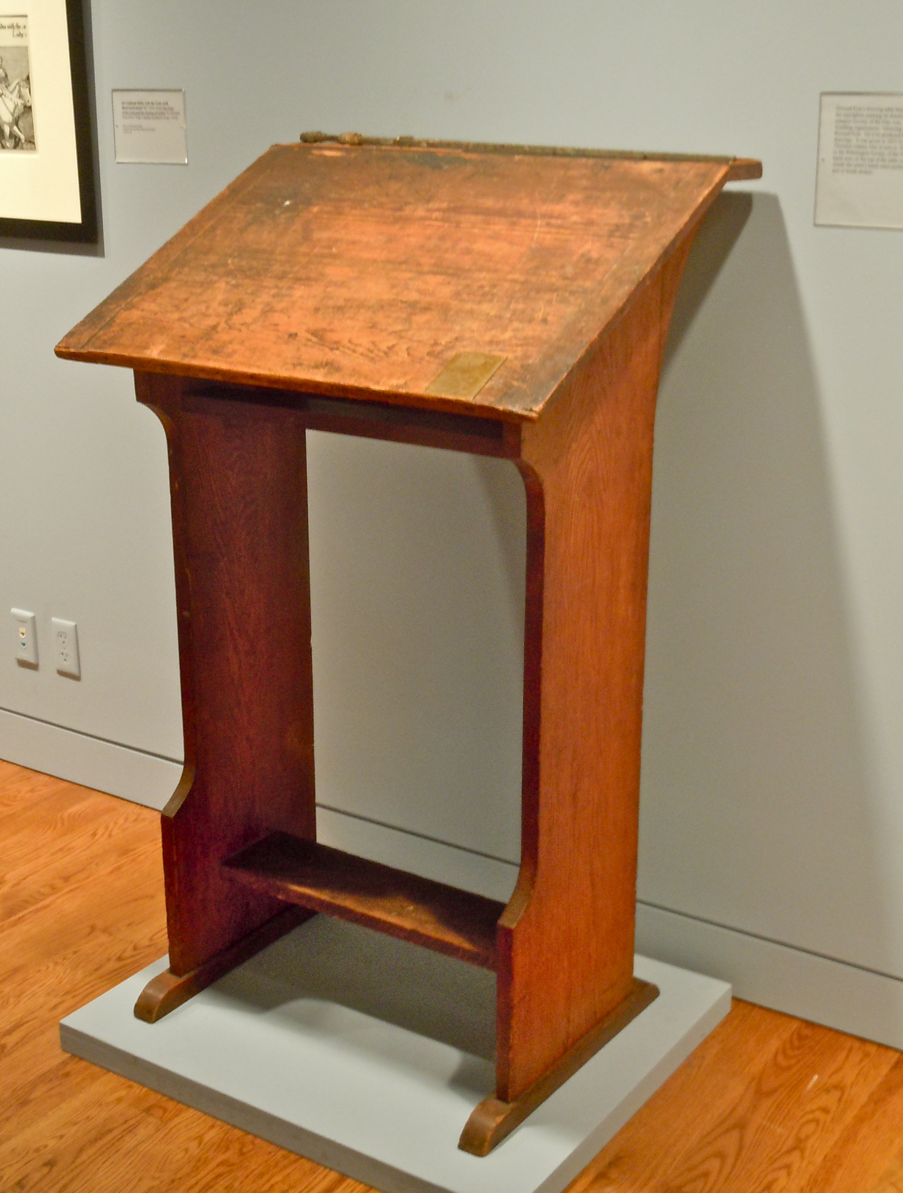 Drawing desk used by Howard Pyle, famous illustrator (died 1911). At the Delaware Art Museum. According to museum label, Pyle produced his King Arthur drawings on this desk. (Inventory)Delaware Art Museum Native nameDelaware Art MuseumLocationWilmington, DelawareCoordinates39° 45′ 58″ N, 75° 33′ 53″ W Established1912Website control VIAF: 279206949 SUDOC: 091566312 BNF: 16740302j